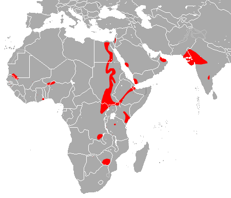 Egyptian Tomb Bat (Taphozous perforatus) range